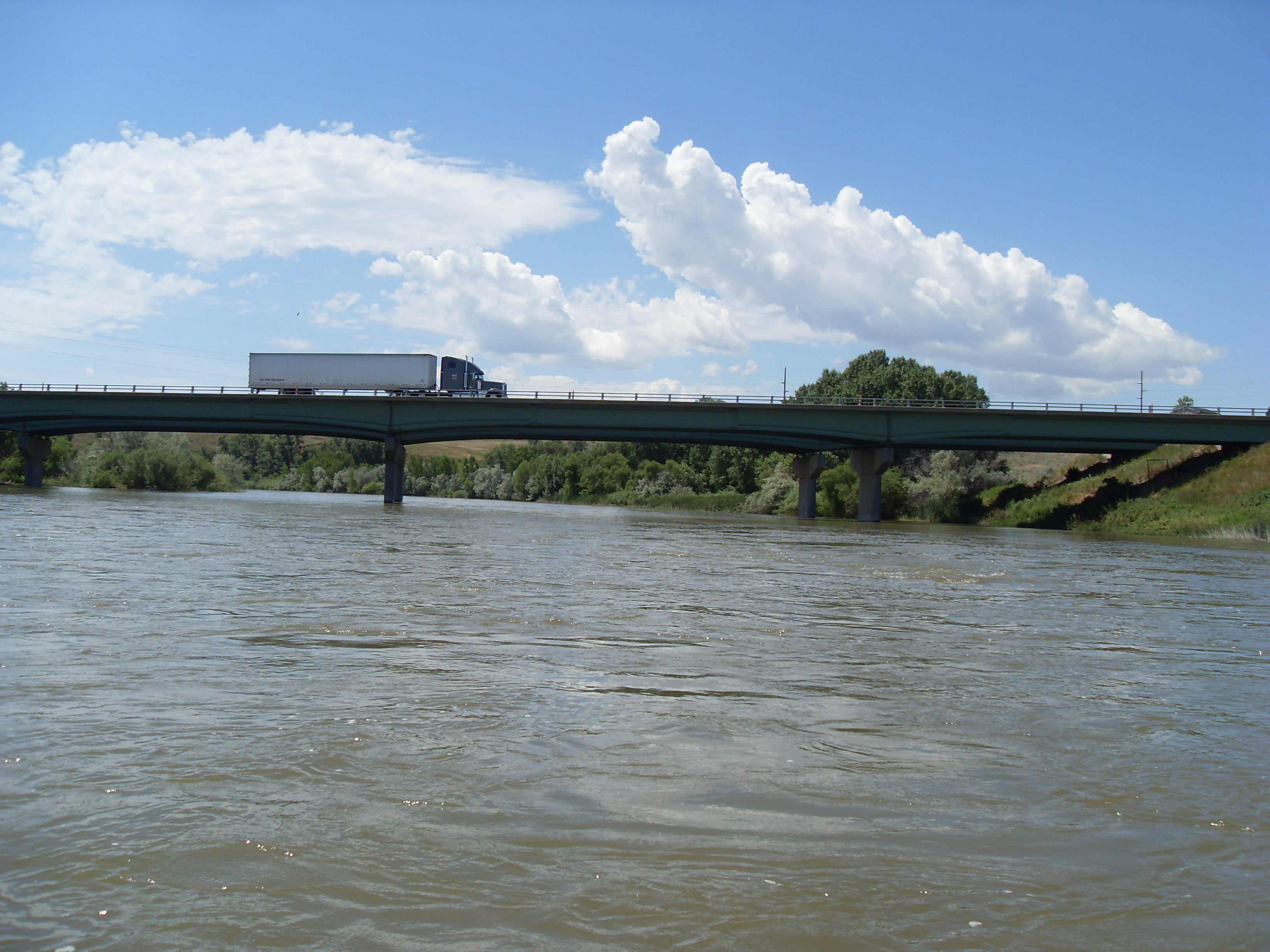 I25 bridge over the North Platte River, close to Douglas, Wy